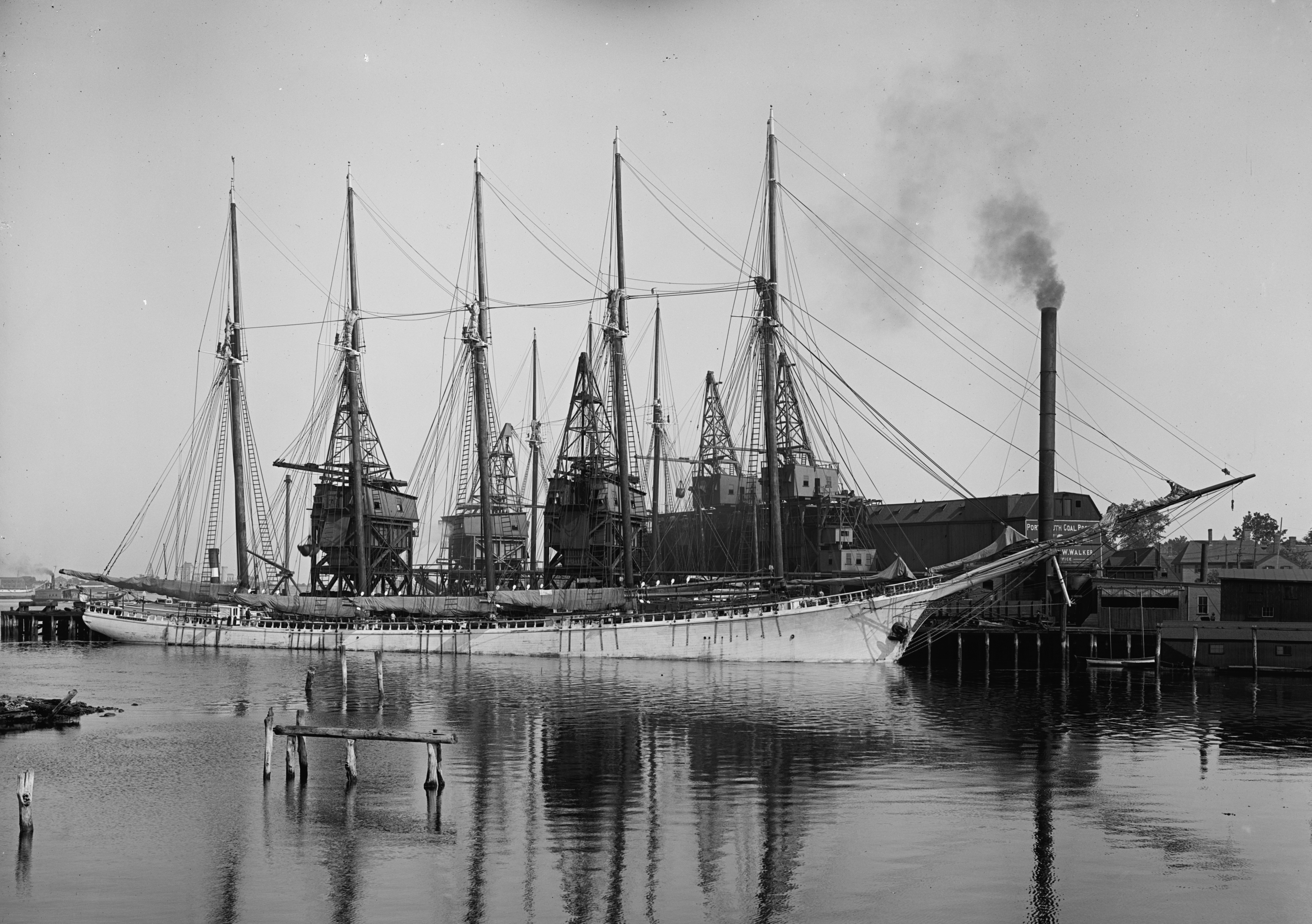 Original caption: “Five-masted schooner, Paul Palmer, Portsmouth, N.H.” Reproduction Number: LC-D4-70499